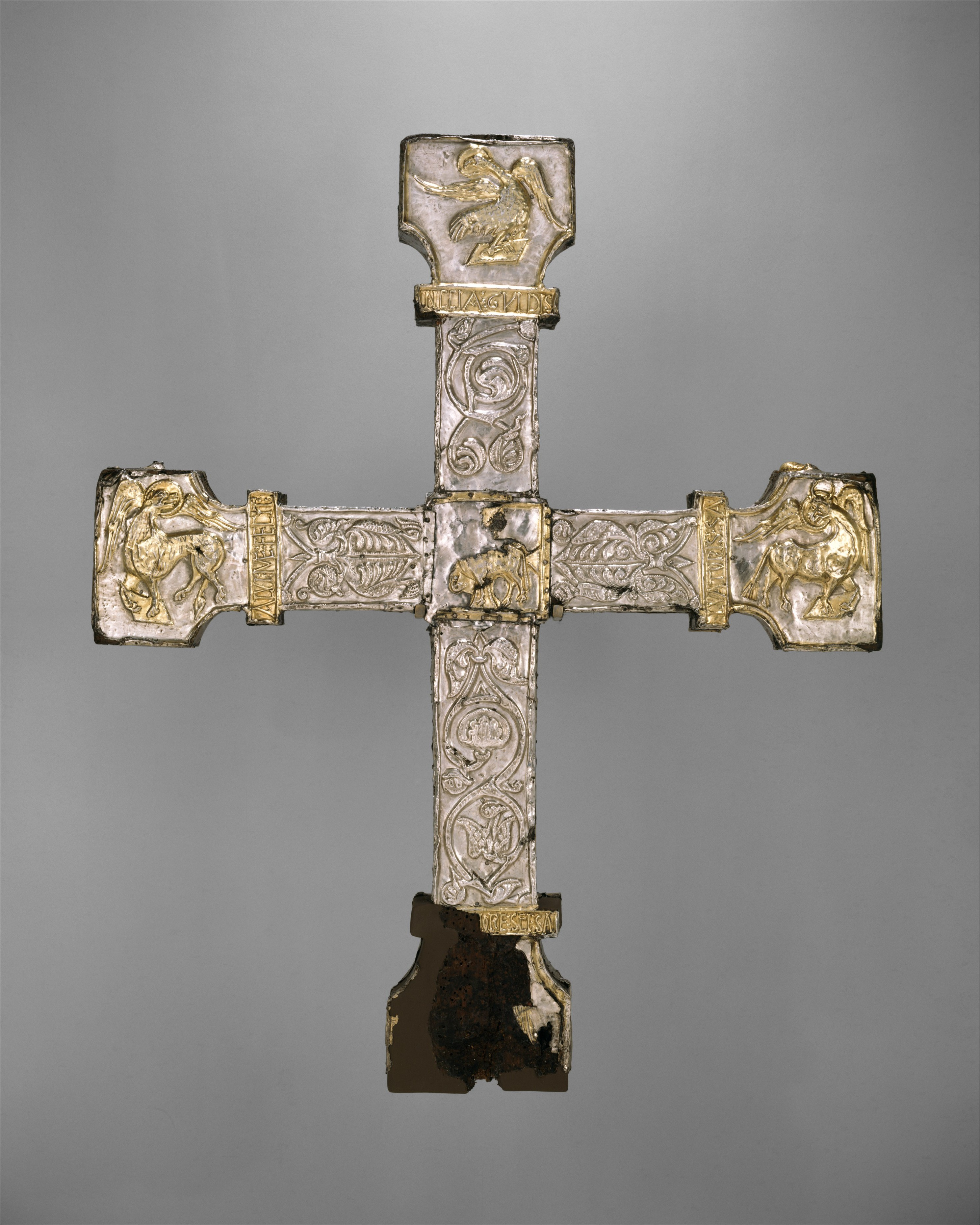 Spanish; Cross; Metalwork-Silver